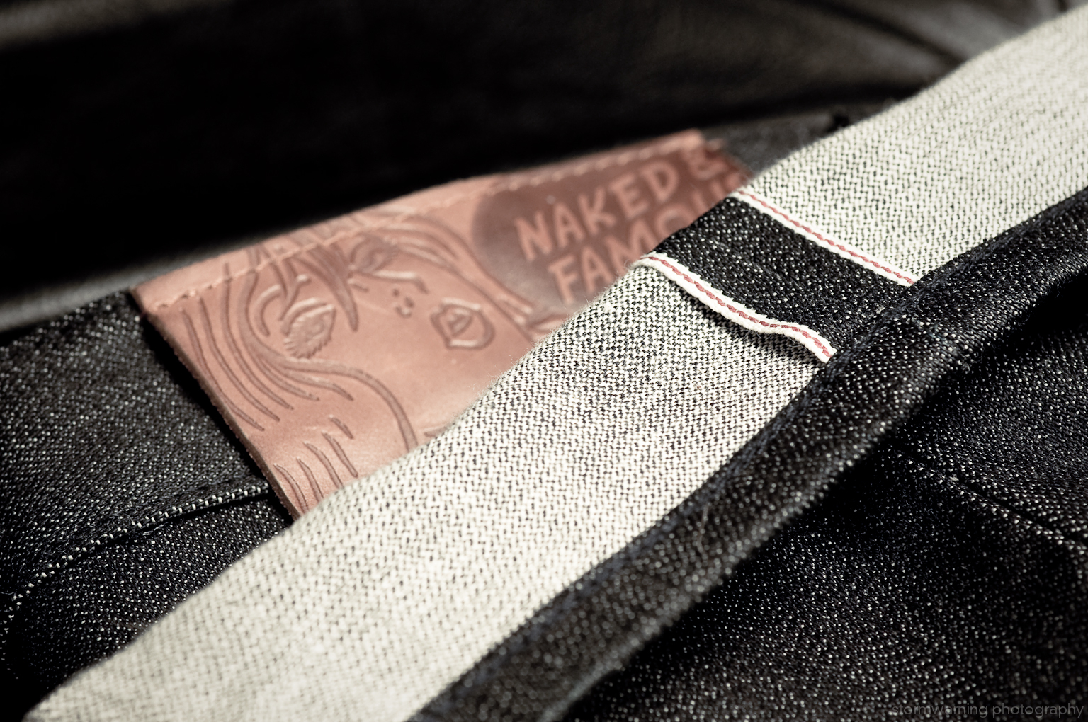 Selvedge denim jeans, Naked and Famous brand.